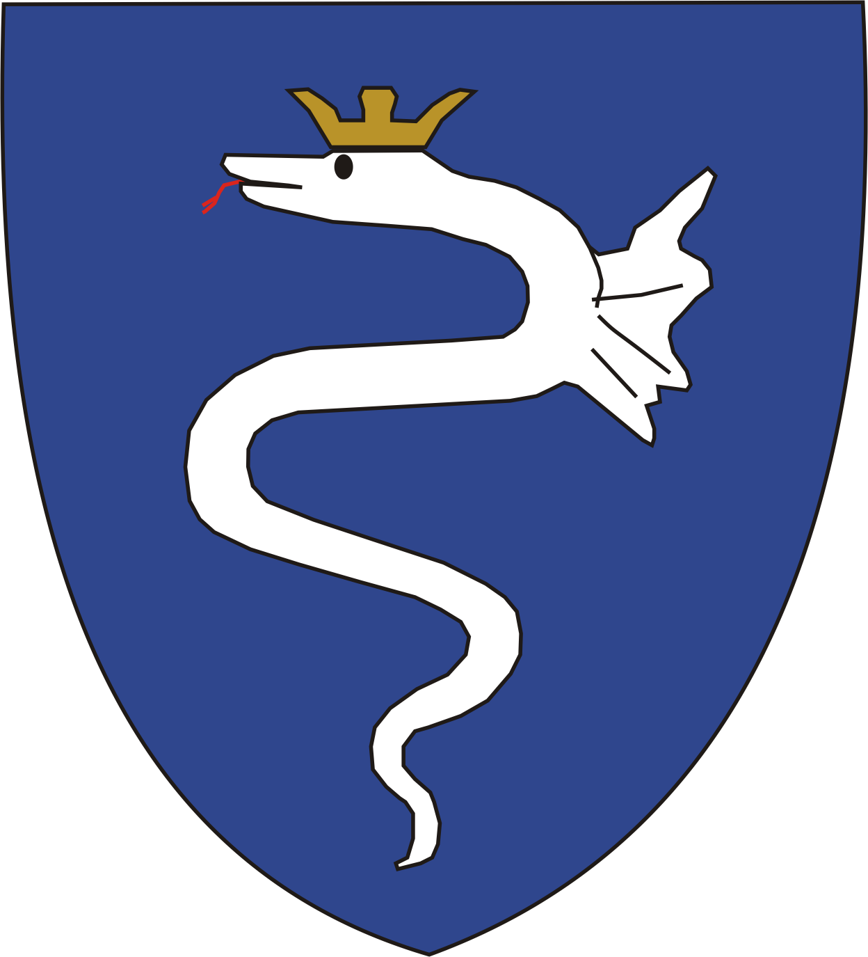 The old coat of arms of Șercaia, Burzenland, Romania.